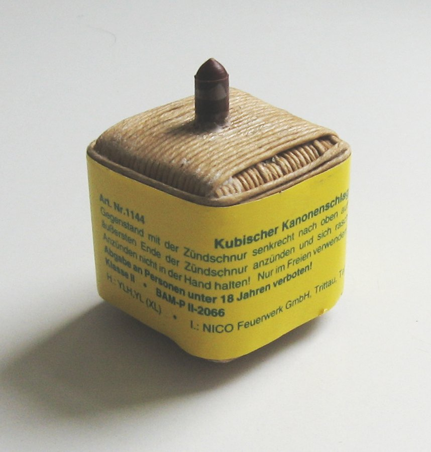 A cube-shaped firecracker